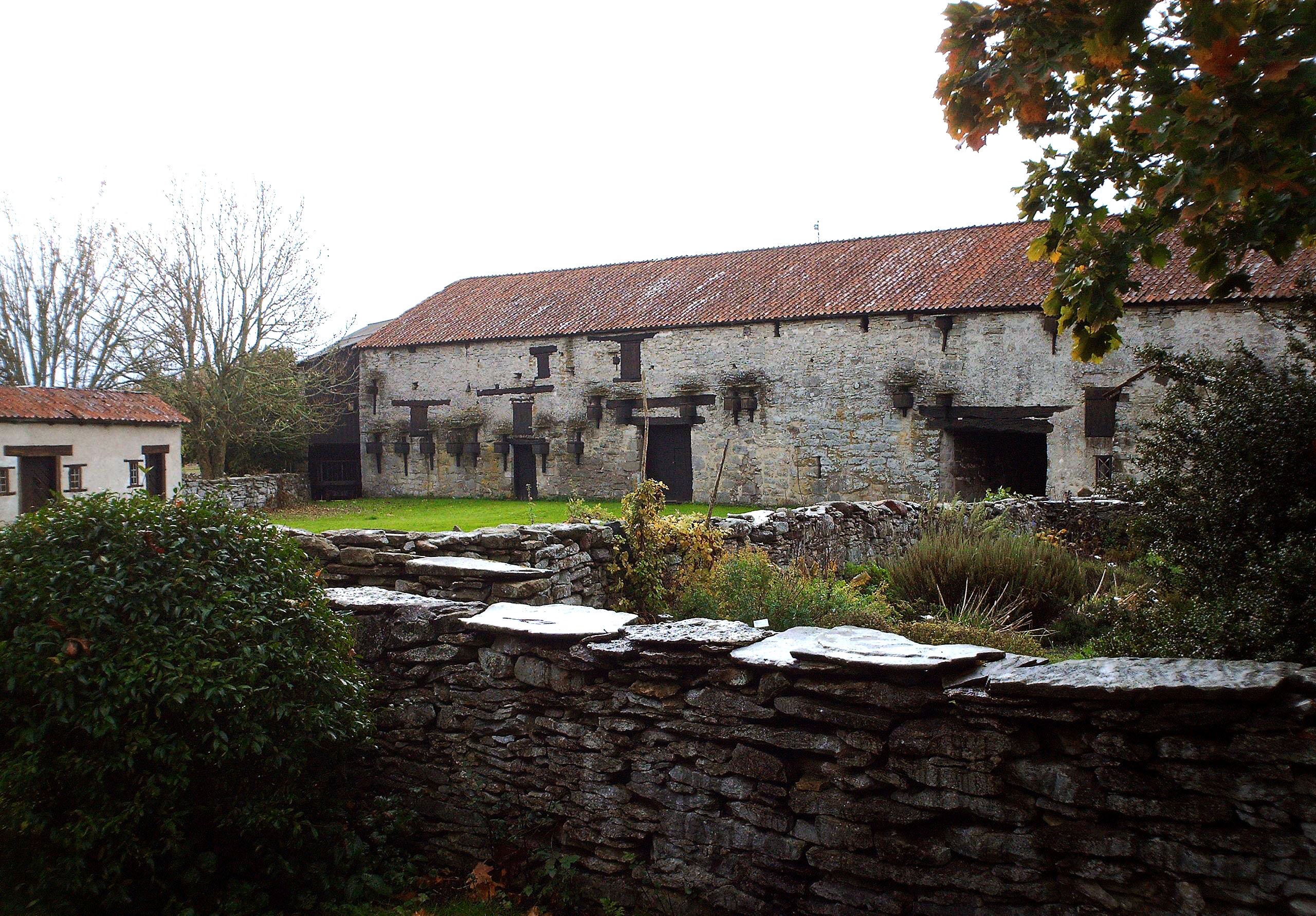 Kattlunds, Gotland, Sweden